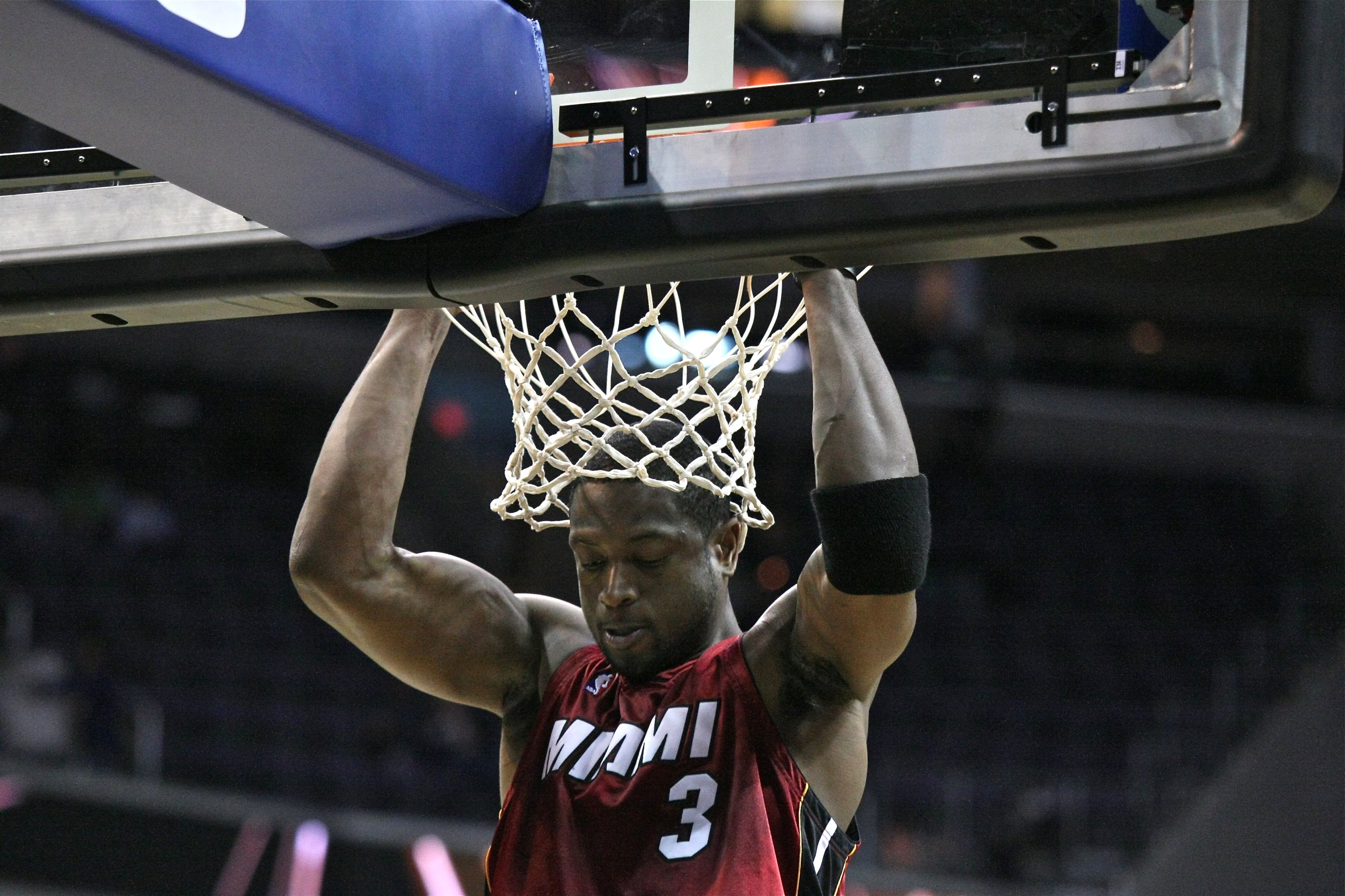 Dwyane Wade of Miami Heat hangs off a rim before a game against the Washington Wizards.